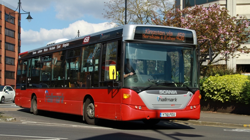 A Hallmark bus on route 458 turning from South Street into Laleham Road in Staines, Surrey. The bus is a Scania K230UB, fleet number 30015, registration mark YT61 FEU.